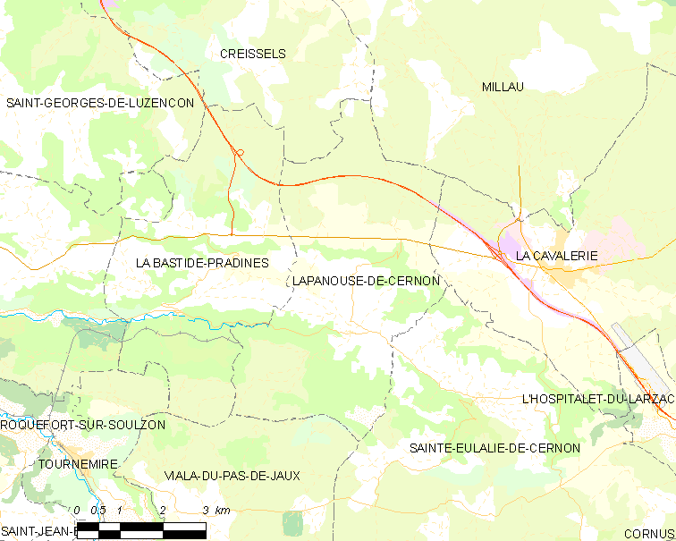 Map commune FR insee code 12122.png - Lapanouse-de-Cernon